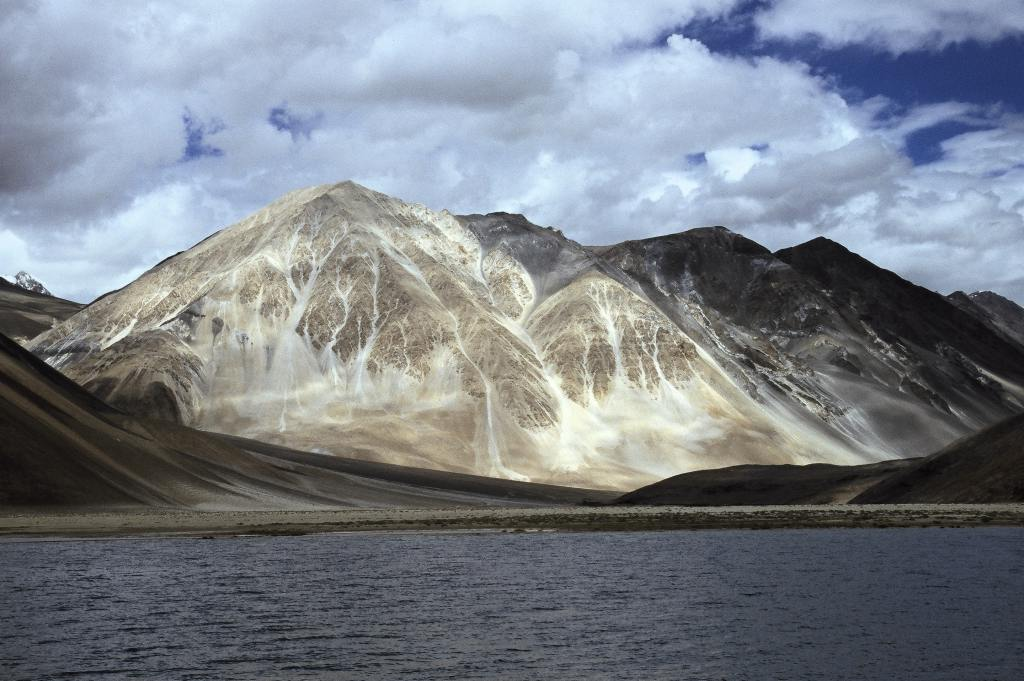 Pangong Tso is a lake at an altitude of about 4500m in the Himalayan region.